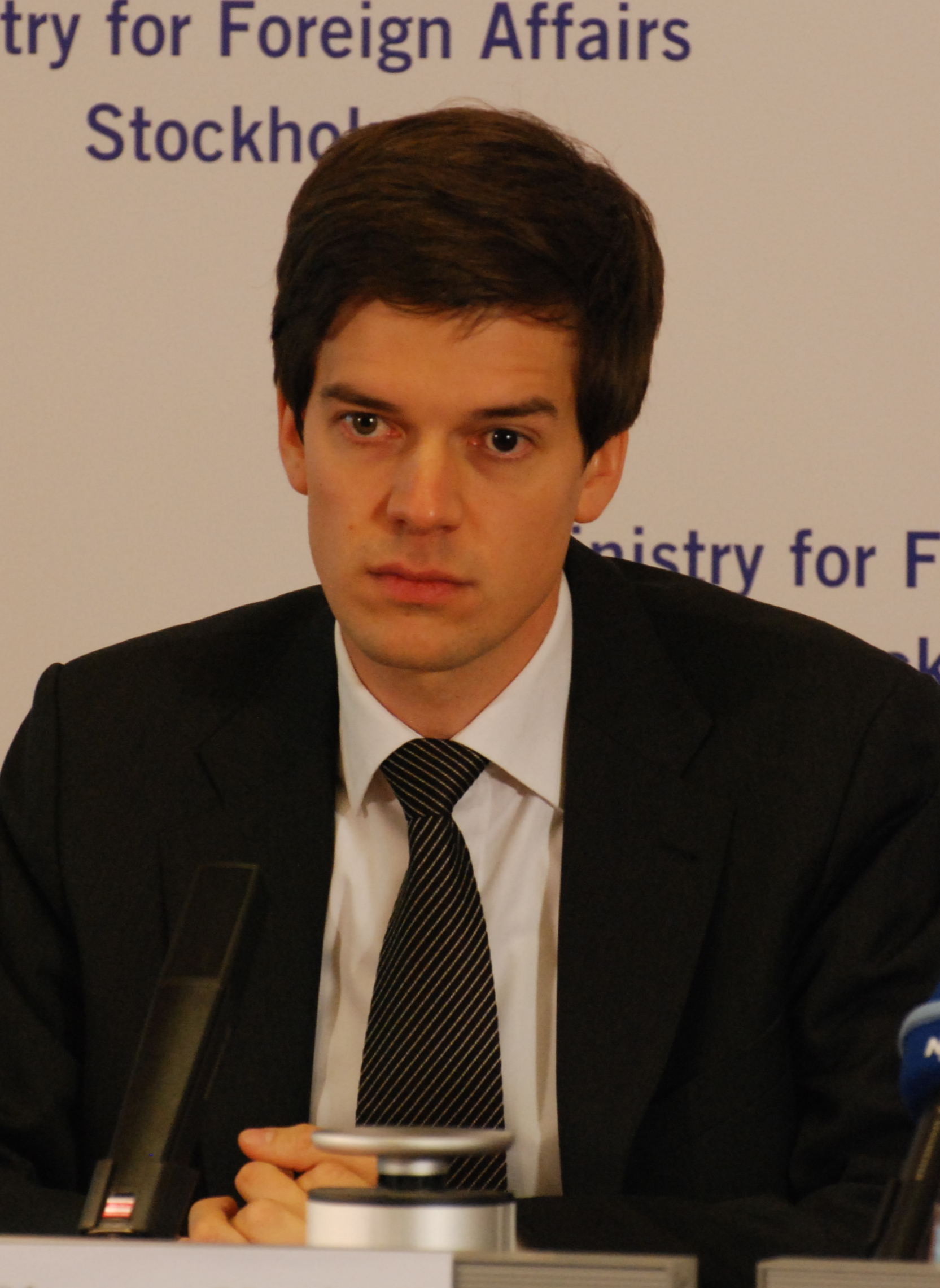 Announcement of the 30th Right Livelihood Award 2009: Ole von Uexkuell